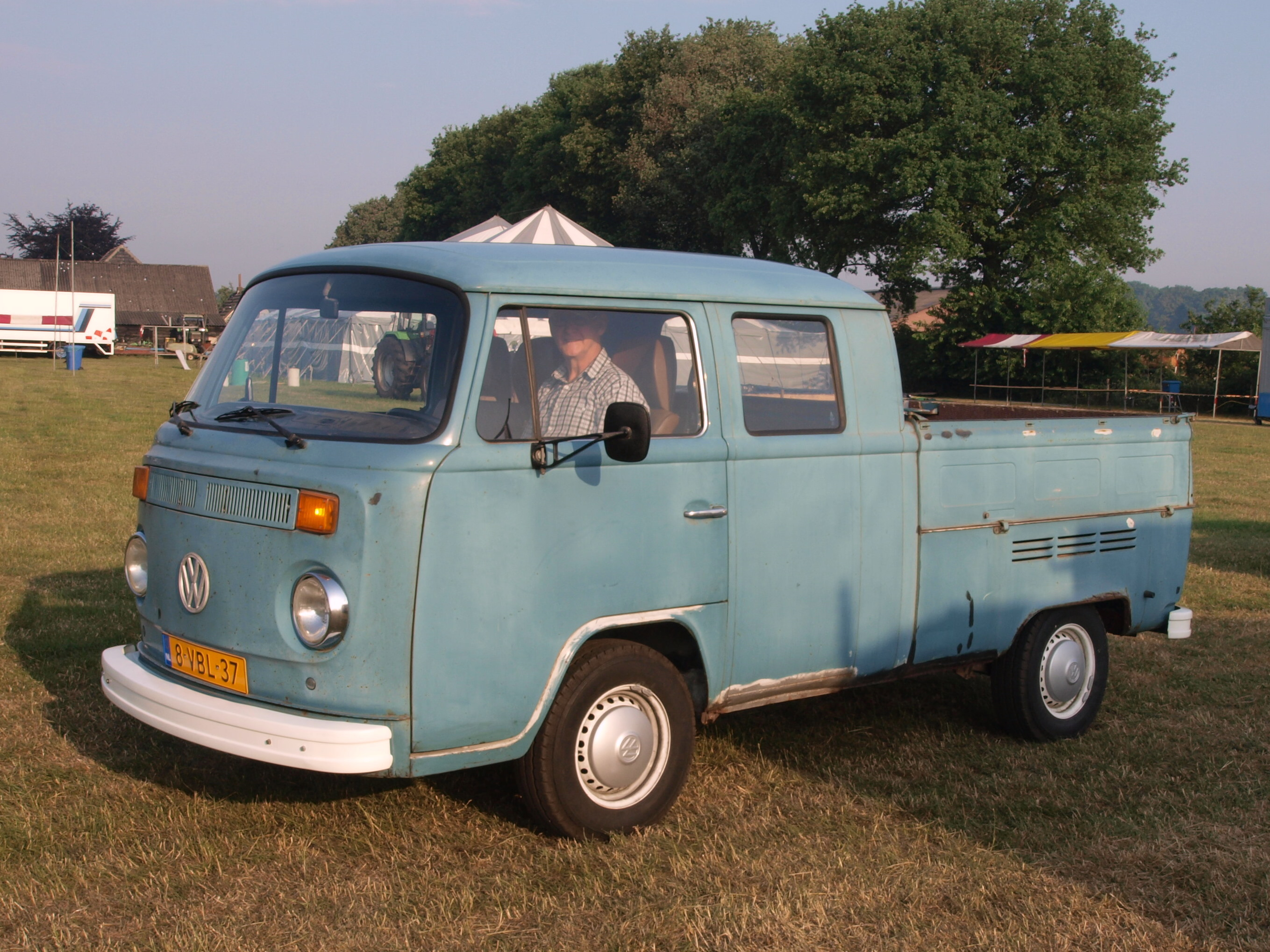 Photographed in The Netherlands. Blue 1978 Volkswagen Transporter.